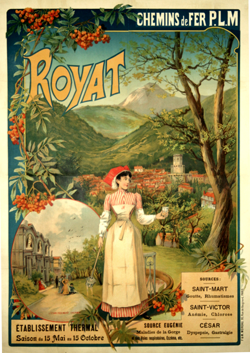 Advertising poster for former PLM railway: Royat